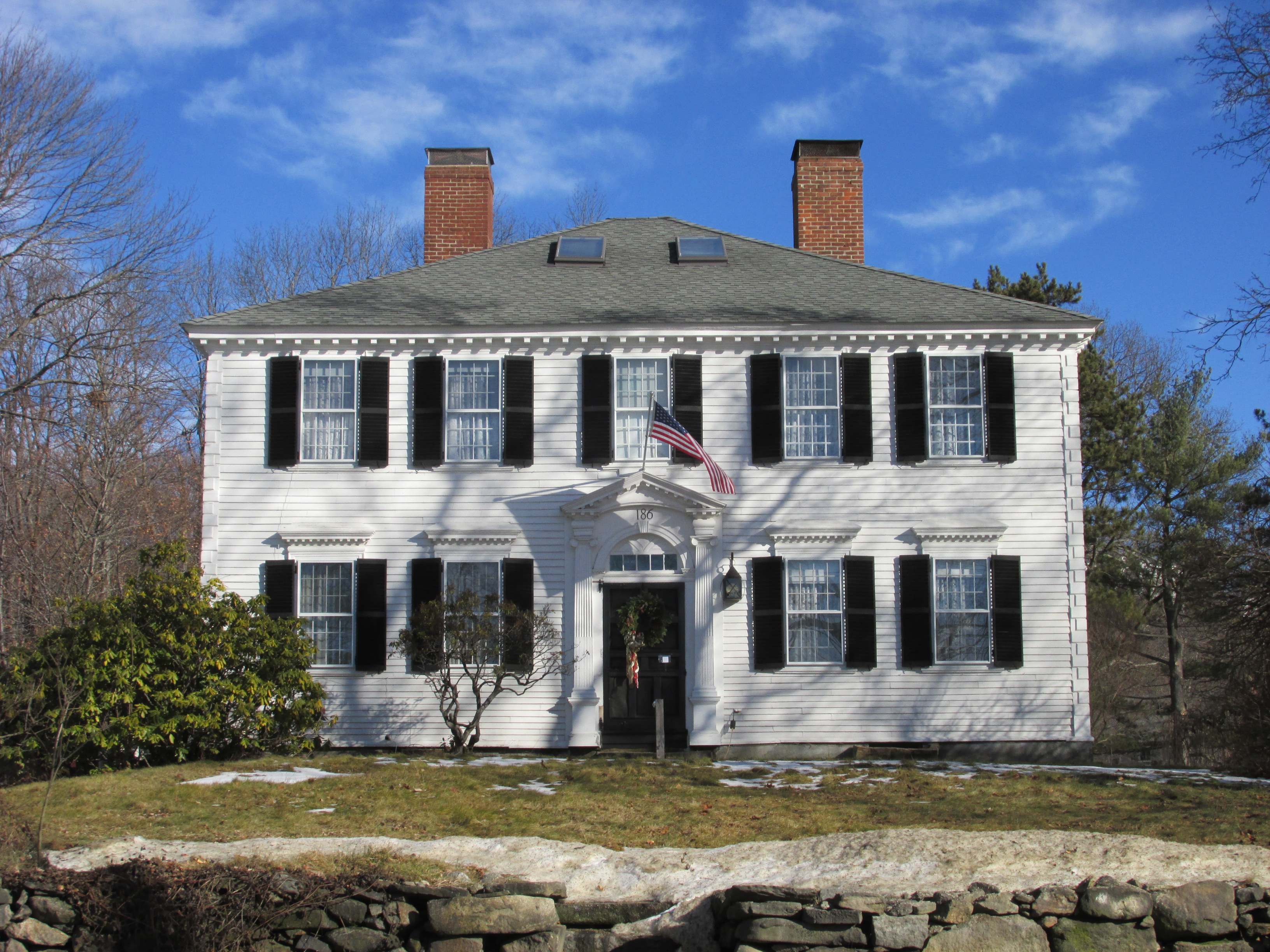 First Ministers House, Gardner Massachusetts